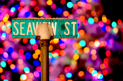 Perfect example for bokeh.